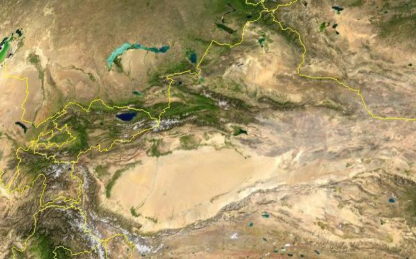 A view of Xinjiang from space. Cropped from NASA World Wind screenshot of China.